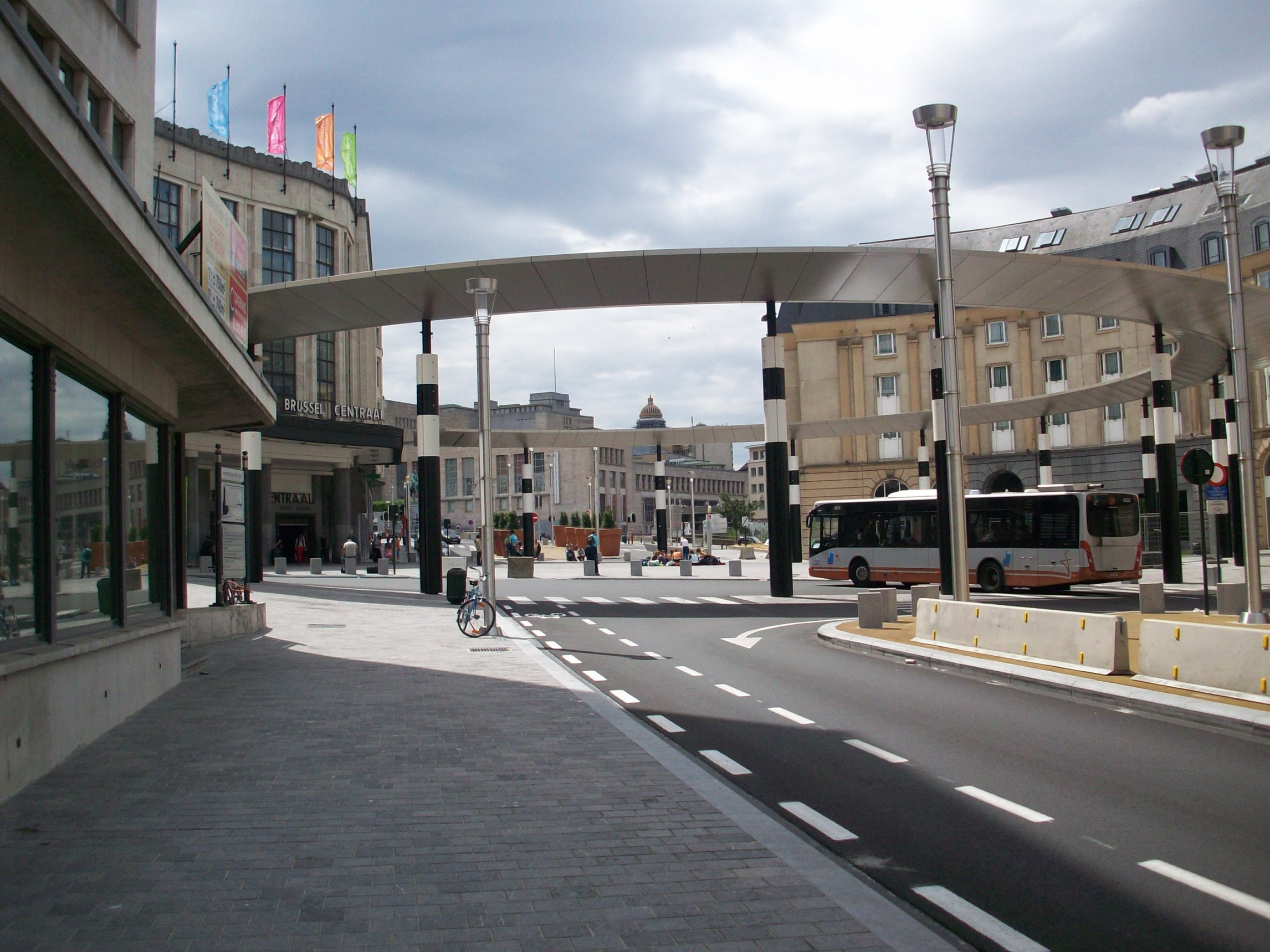 Front and neighboorhood of Brussels Central station in 2010 after renovations